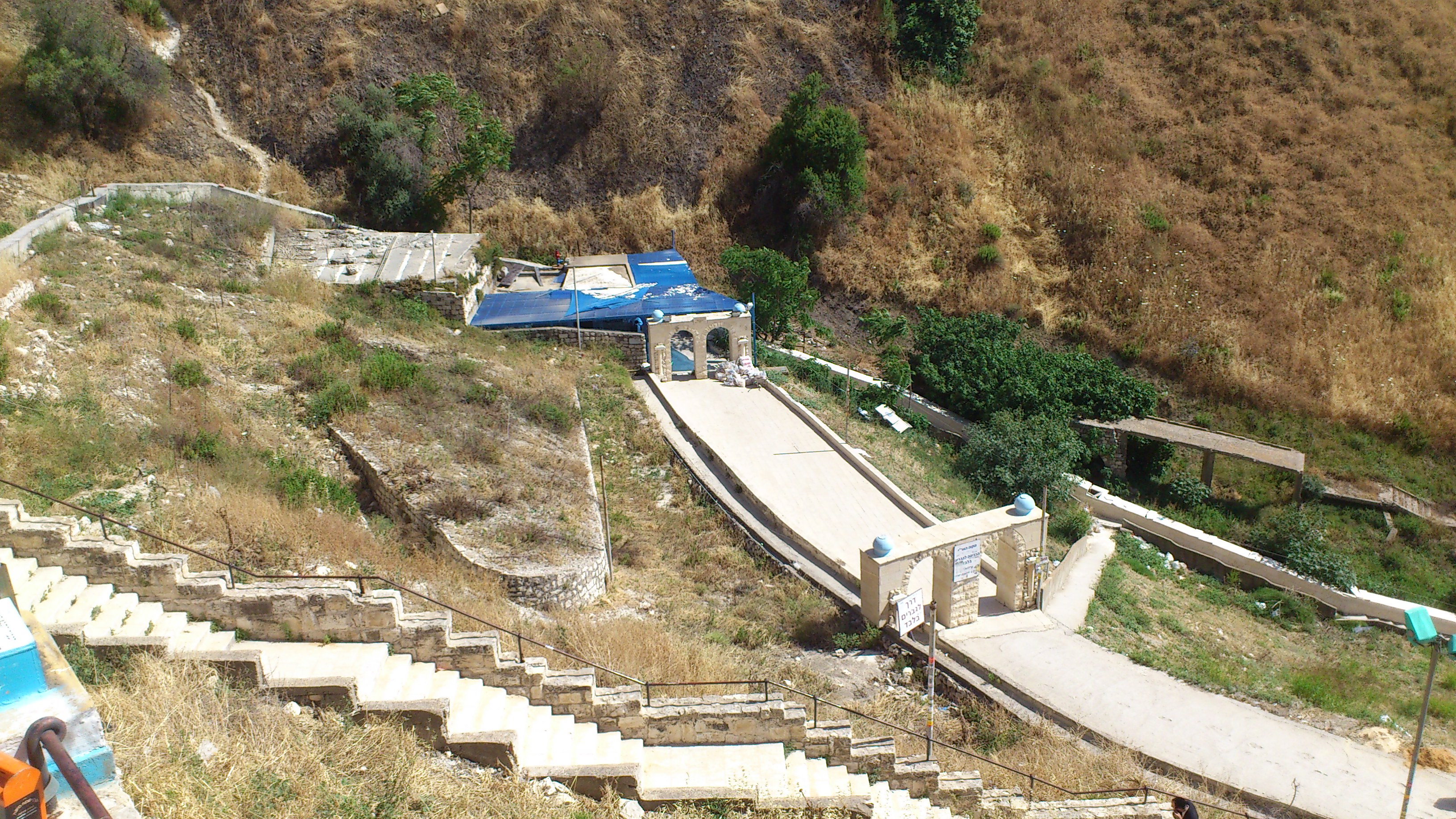 Mikveh of Isaac Luria